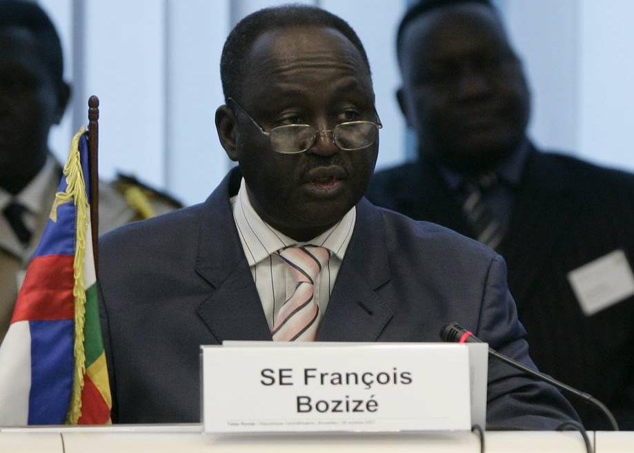 François Bozizé, President of the Central African Republic, at the CAR Development Partner Round Table in Brussels